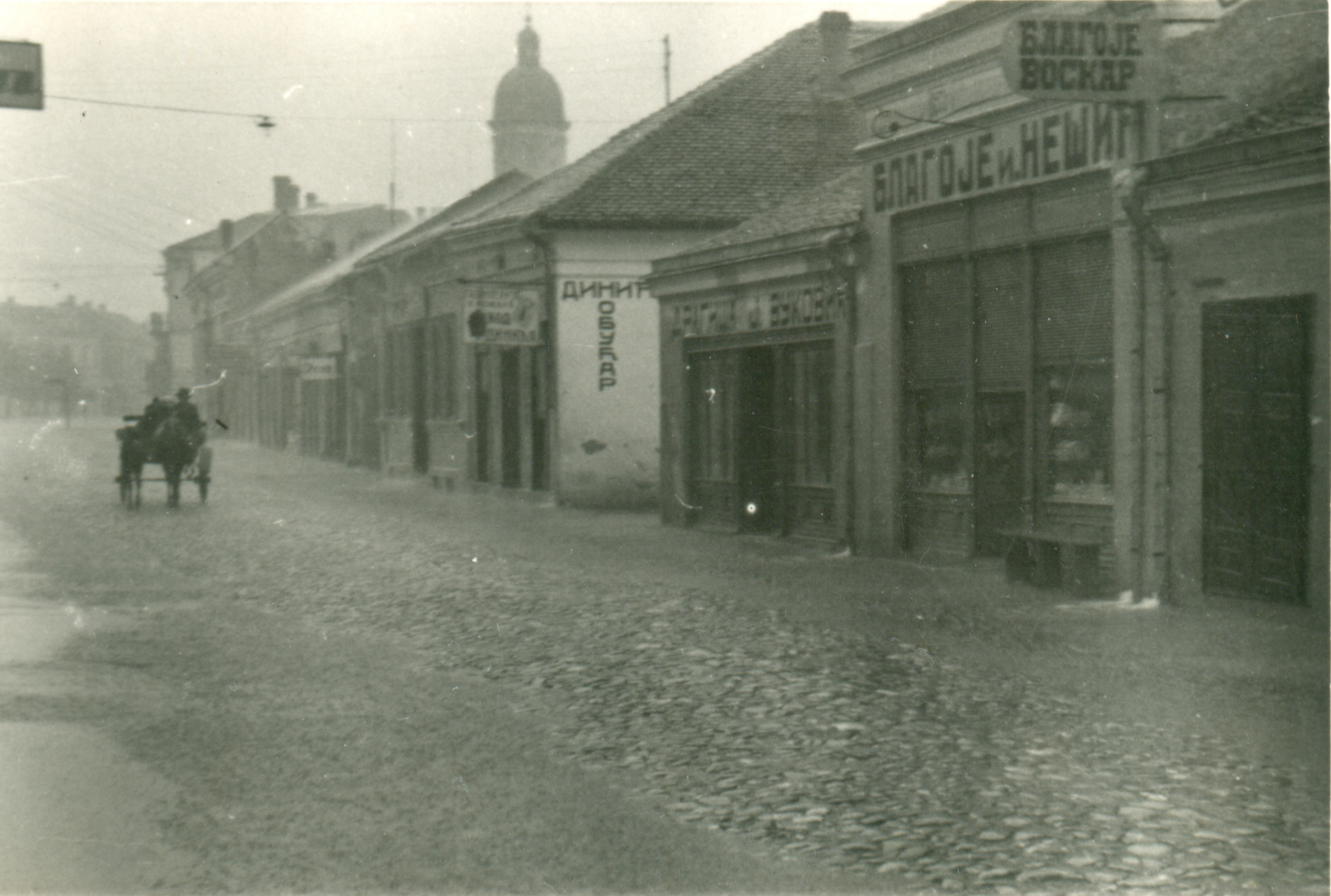 A rainy day in old Negotin, the fourth decade of the 20th century Srpski (latinica): Kišni dan u starom Negotinu, četvrta decenija XX veka